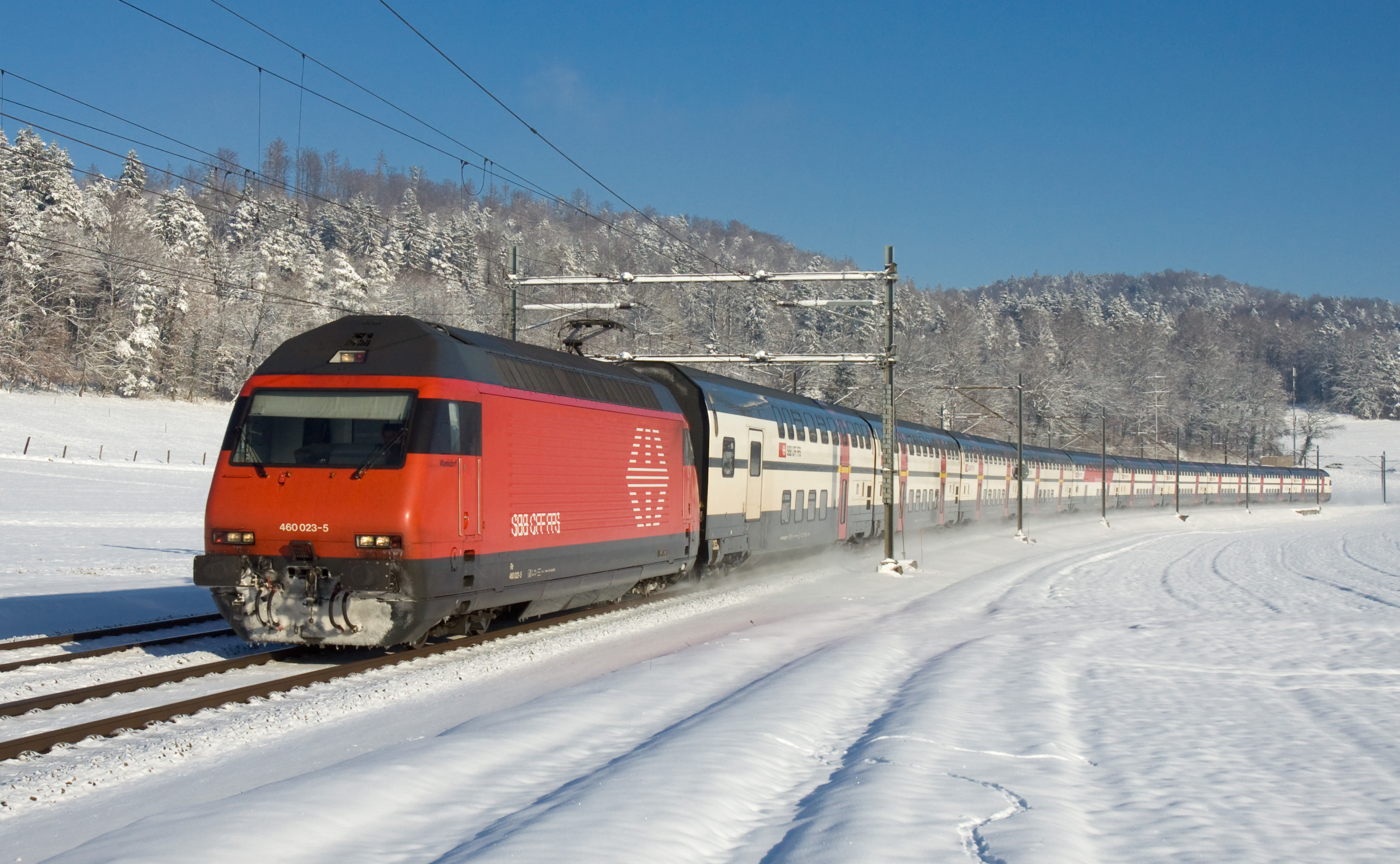 SBB Re 460 with an IC2000 double-decker trainset on its way from St. Gallen to Zurich, near Schottikon.